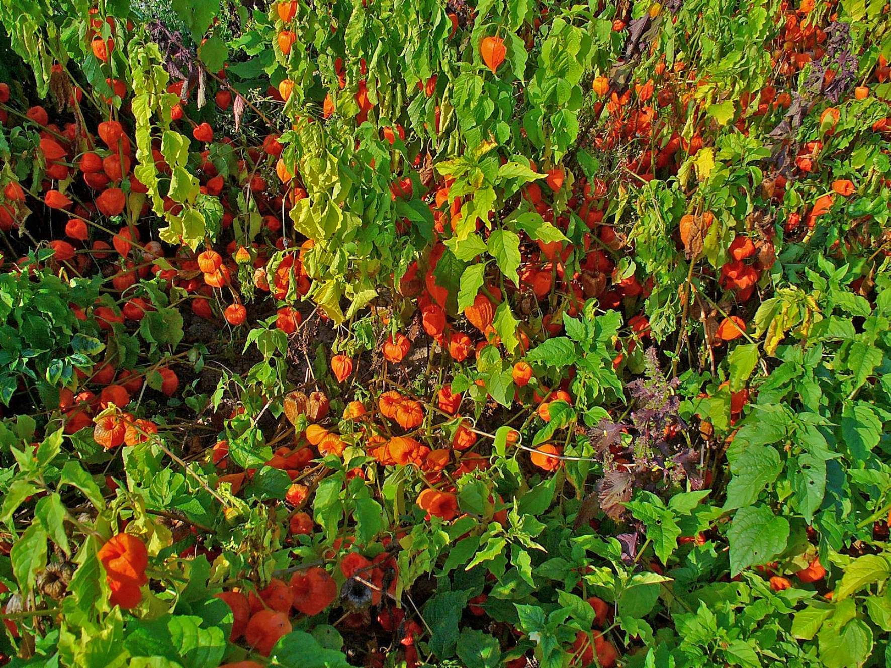 Physalis alkekengi, Solanaceae, Bladder Cherry, Chinese Lantern, Japanese Lantern, Winter Cherry, plants with fruits.